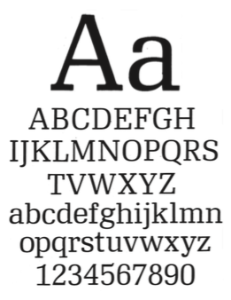 Public typeface for newspapers (1955) by Stanislav Maršo